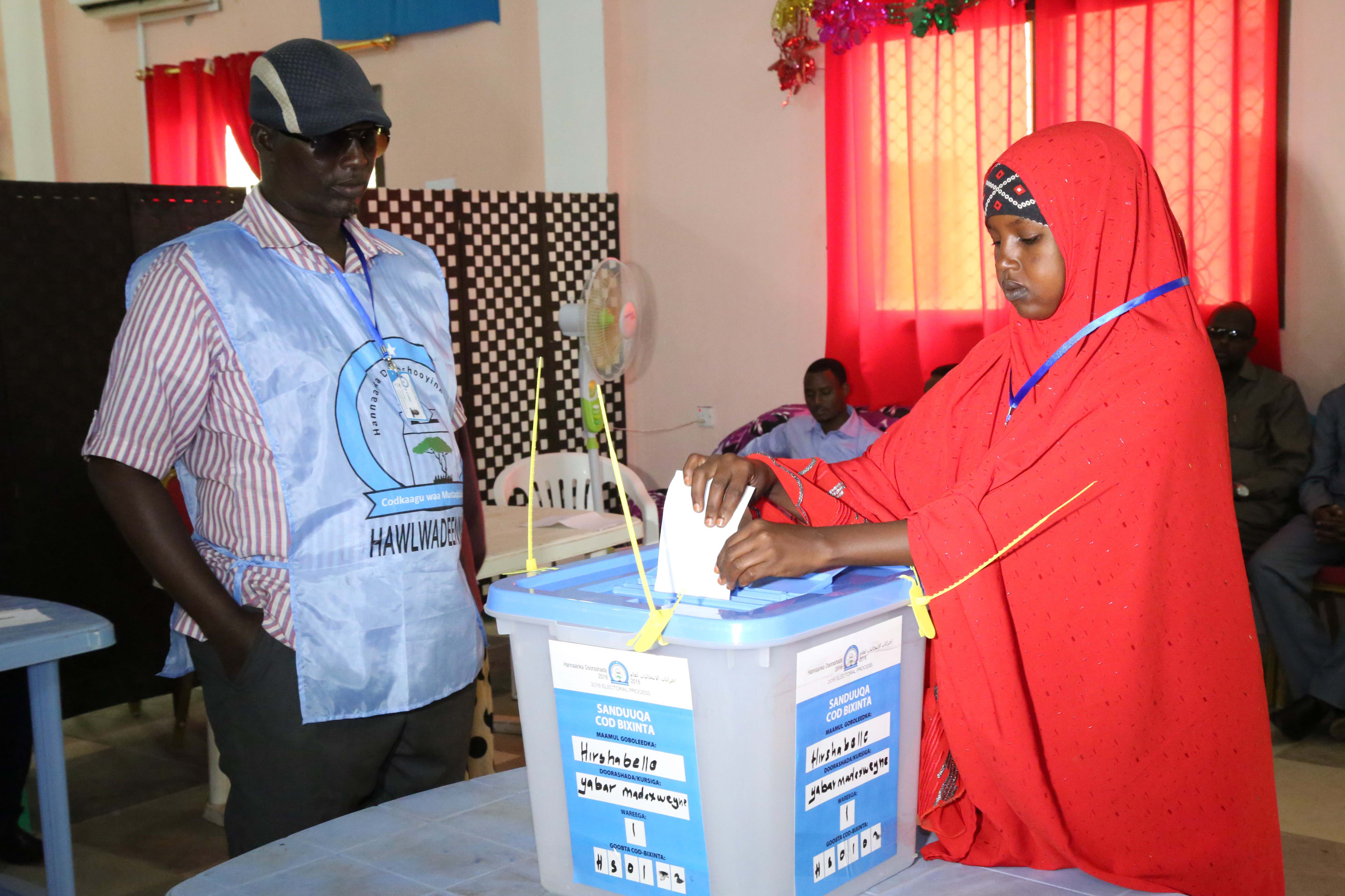 A woman delegate from HirShabelle State casts her vote during the electoral process to choose members of the Lower House of the Somali federal Parliament in Jowhar, Somalia on November 23, 2016. AMISOM Photo